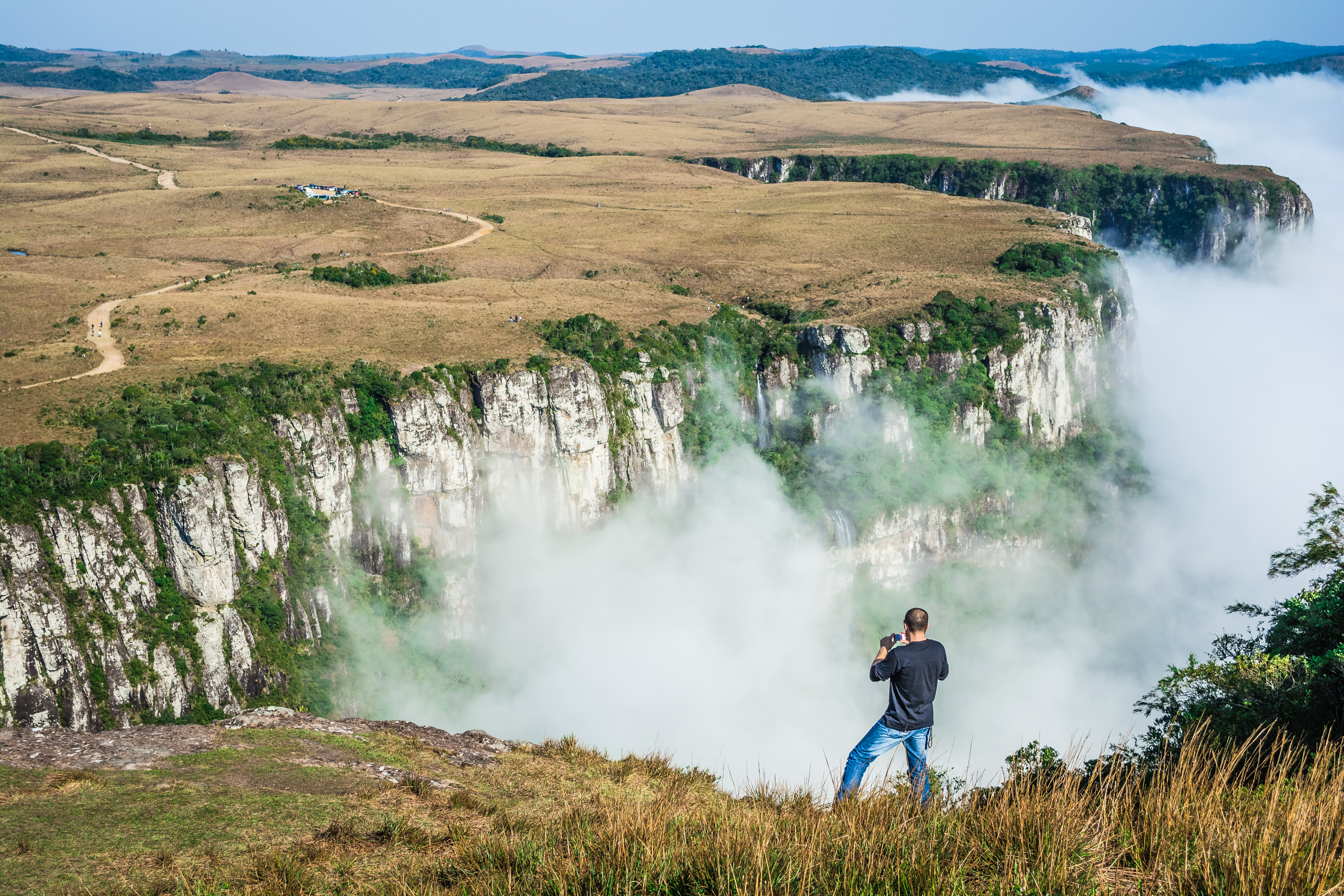 Canion Fortaleza in a sea of clouds at Parque Nacional de Aparados da Serra, Brazil